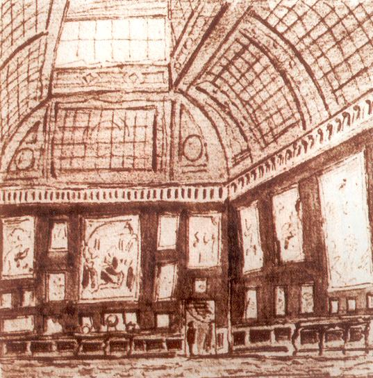 Drawing from Friedrich Wilhelm IV. von Preußen, Raffaelsaal, Orangery palace, Potsdam, Germany